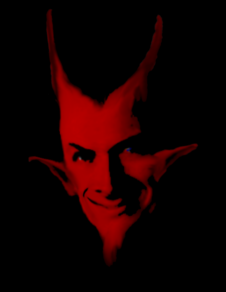 (This is a typical modern of depiction of satan (or the devil, lucifer, diabolos, etc) in the likeness of a goat with horns and goatee. This image evolved from ancient depictions of the god pan.